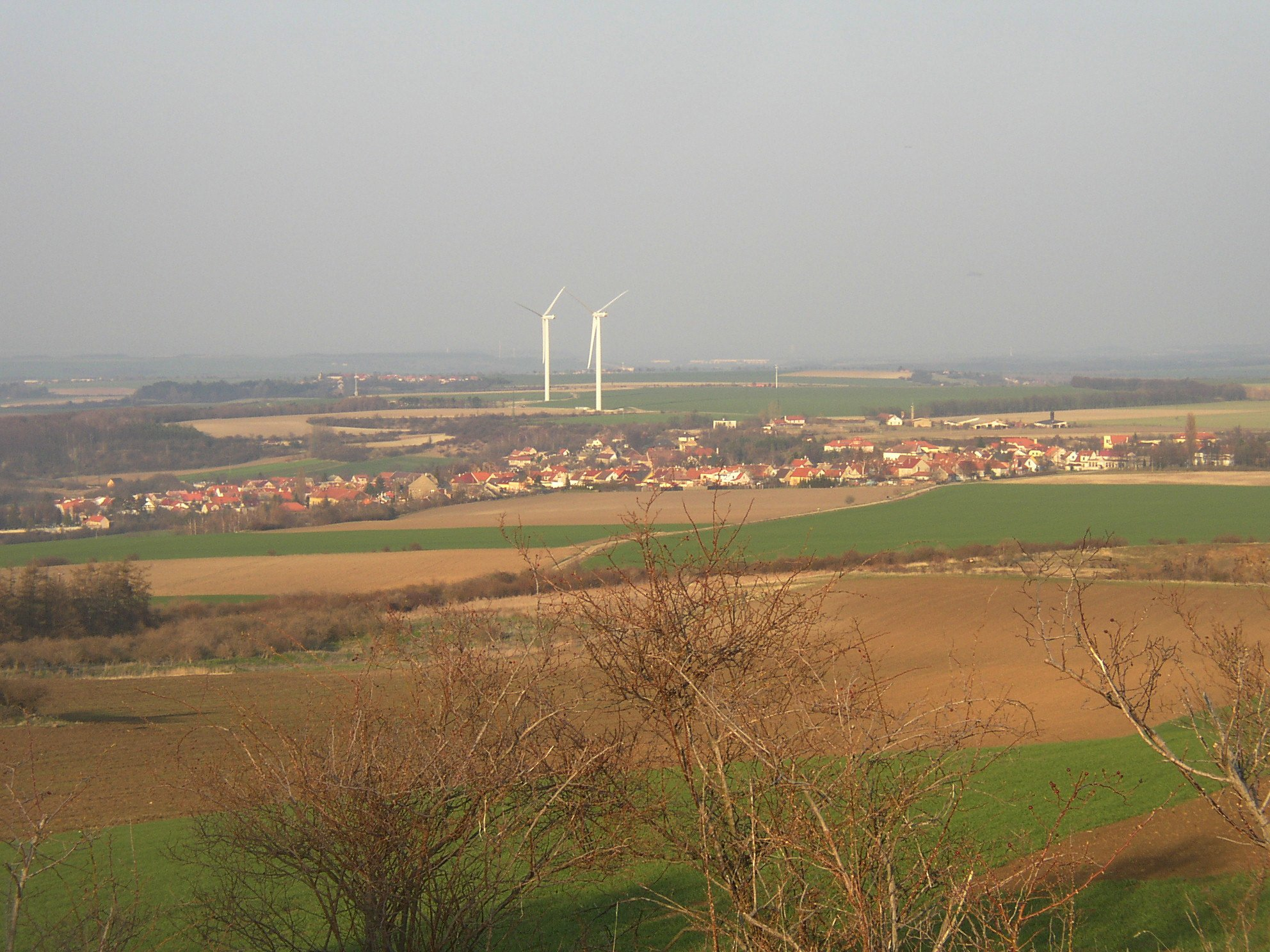 Village of Pchery, Kladno District, Czech Republic, as seen from SSW, from summit of Vinařická hora hill (413 m).